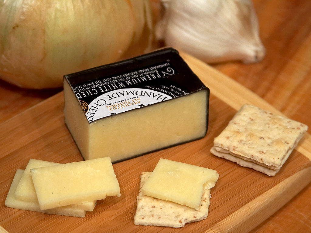 Bravo Cheddar wax covered cheese from Bravo Farms, Traver, California.